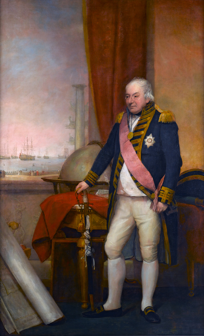 A full-length portrait to left in admiral's full-dress uniform, 1795-1812, wearing the ribbon and Star of the Bath and the St Vincent medal.